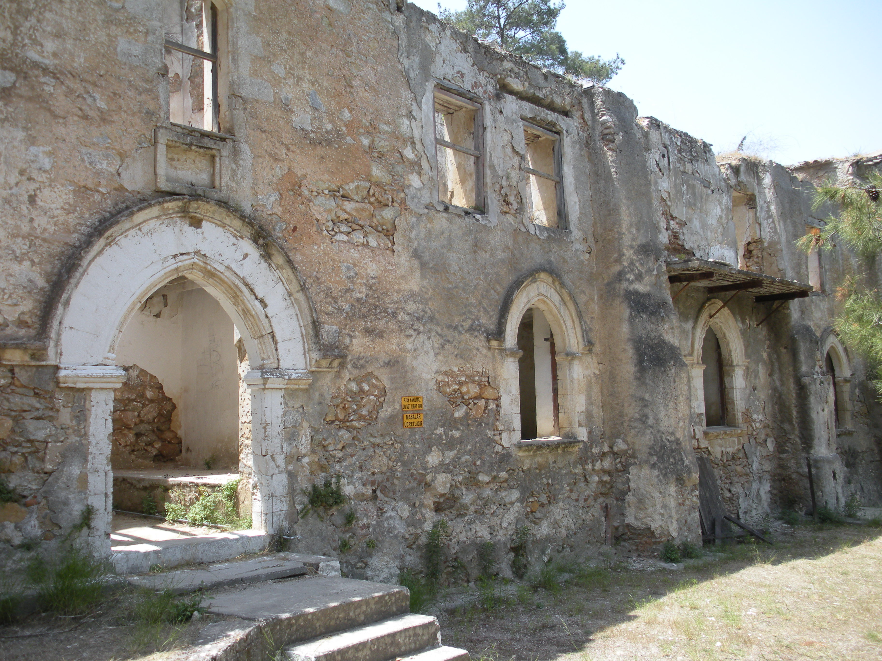 East facade of Sourp Magar, Cyprus, probably 15th century